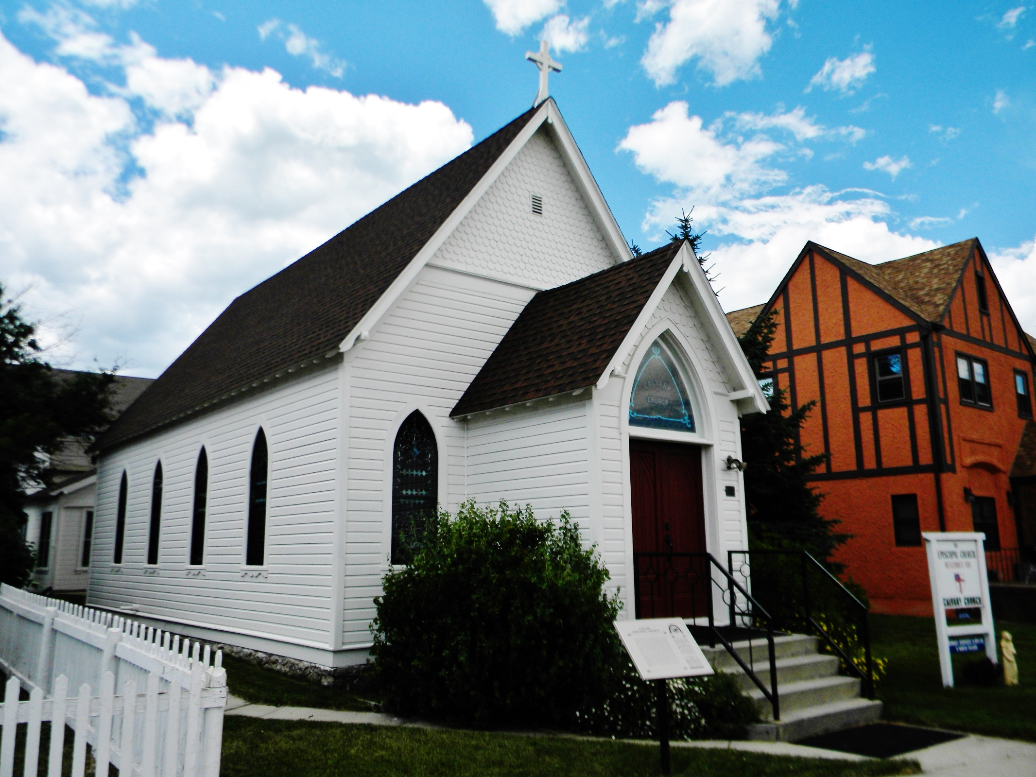 Calvary Episcopal Church